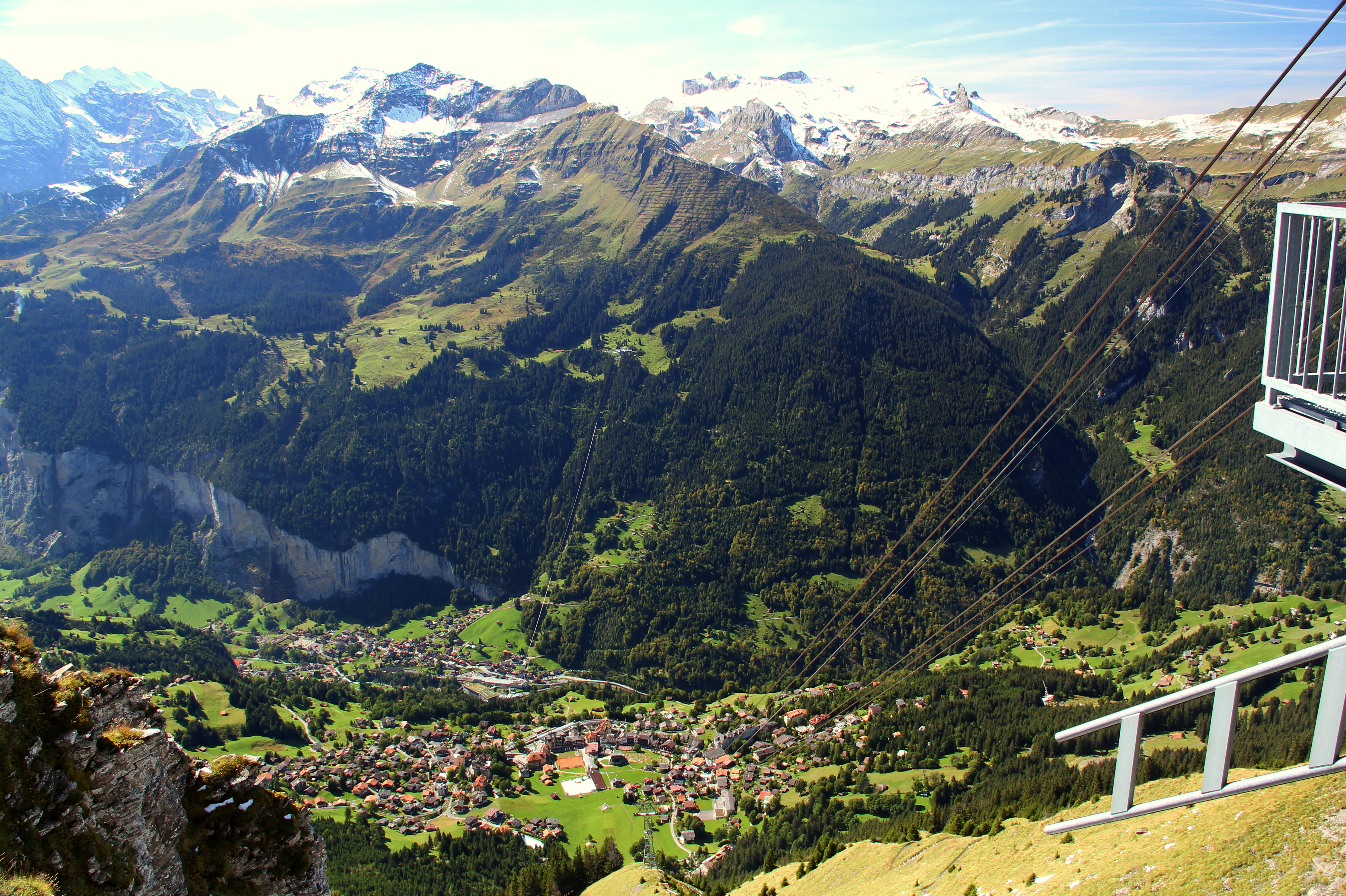 The village of Wengen (foreground, bottom center) and Lauterbrunnen (left of center, behind Wengen) from the upper terminus of the Luftseilbahn Wengen-Männlichen (LWM) cable car. The LWM cable extends from the upper right of the image down to Wengen. On the opposite side of the valley, the cable for the Bergbahn Lauterbrunnen–Mürren (BLM) is visible ascending from Lauterbrunnen to Grütschalp.